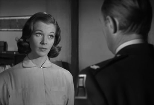 Dolores Michaels (with Richard Widmark) in Time Limit - original trailer (cropped screenshot)